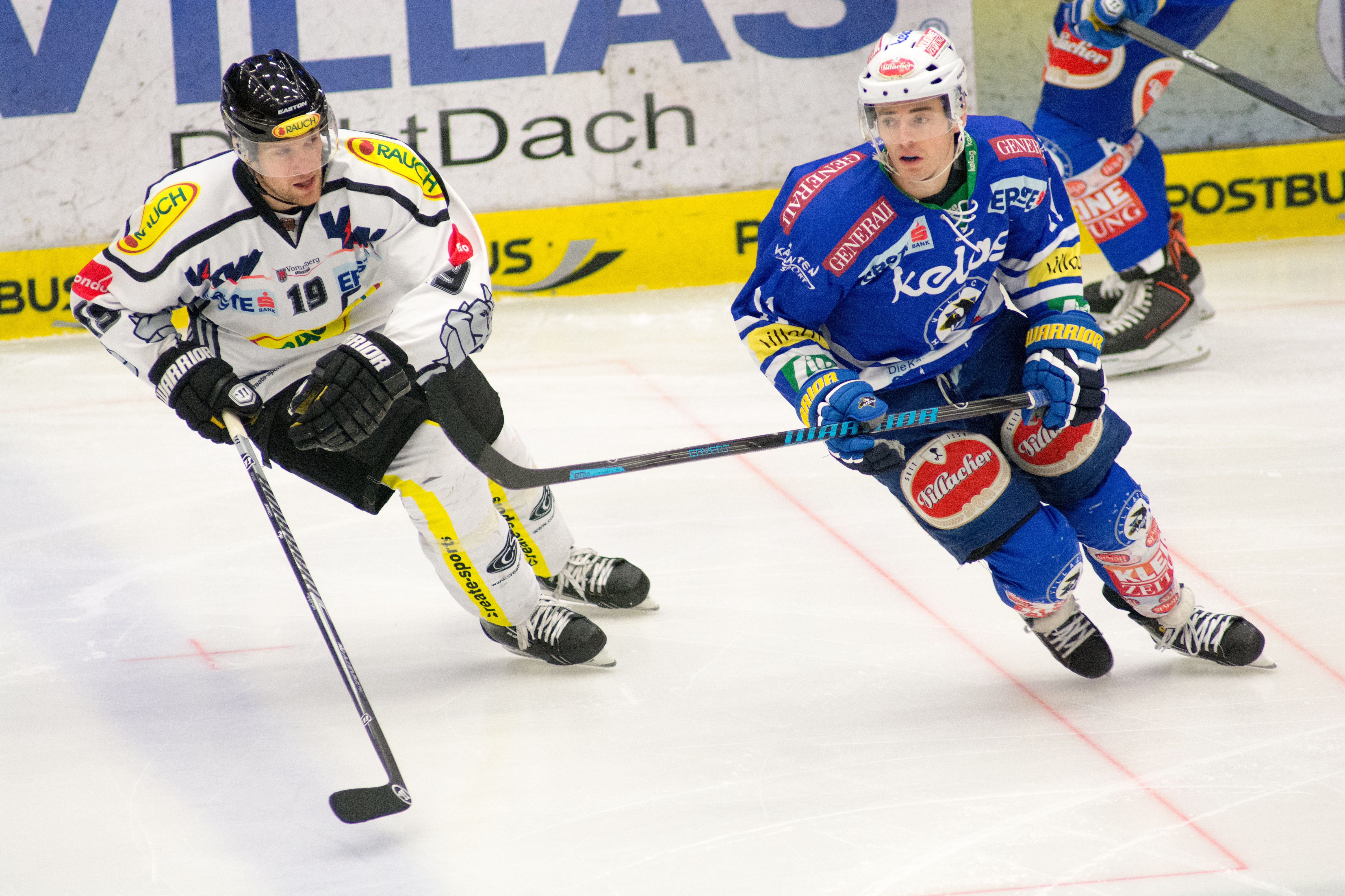 30.12.2013,Stadthalle Villach, AUT, EBEL, 61. Runde, EC VSV vs. Dornbirner EC, im Bild // frostworx Pictures © 2013, PhotoCredit: frostworx / Alex Micheu